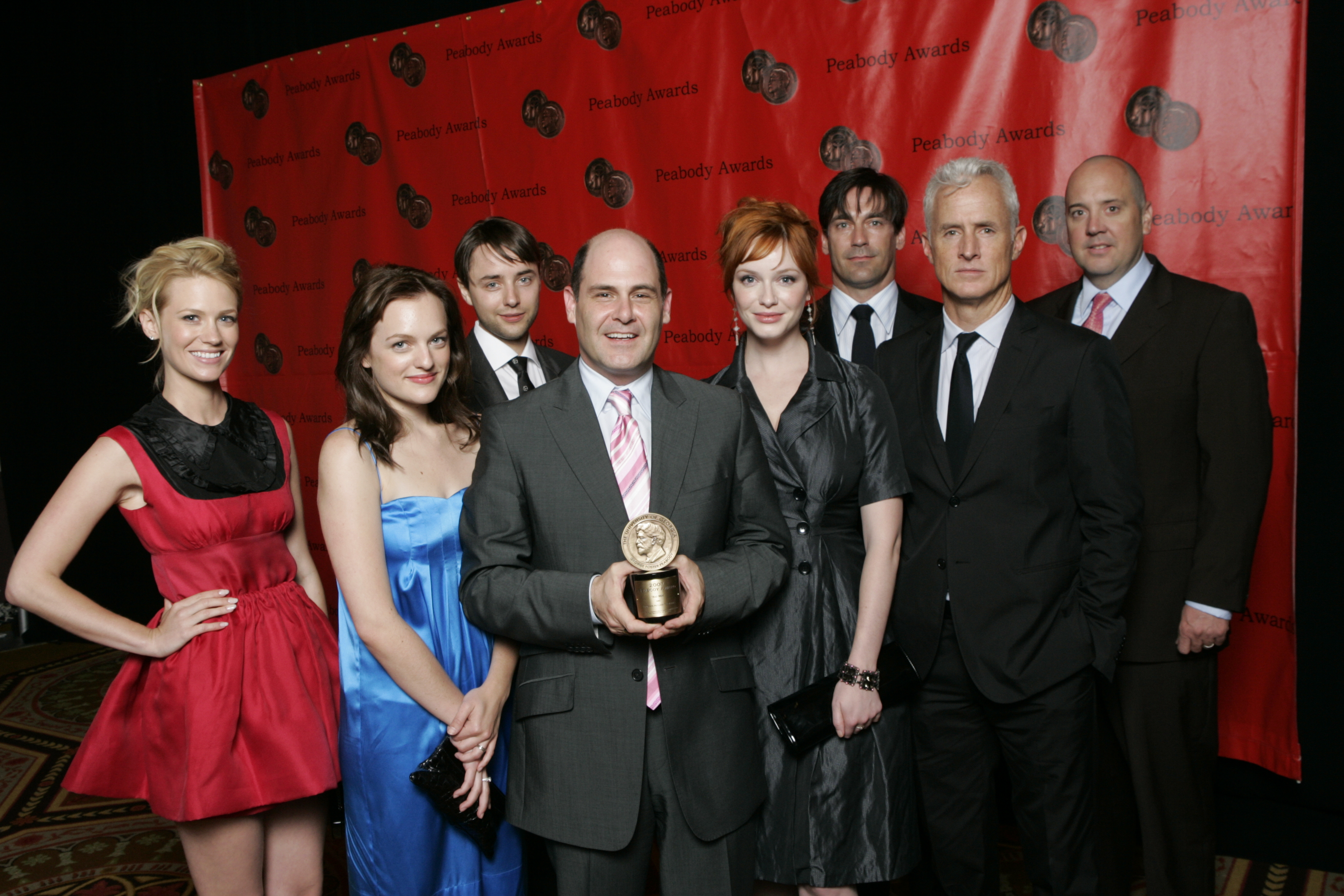 January Jones, Elisabeth Moss, Vincent Kartheiser, Matthew Weiner, Christina Hendricks, Jon Hamm and John Slattery. 67th Annual Peabody Awards Luncheon. Waldorf-Astoria Hotel. New York, NY USA. June 16, 2008.